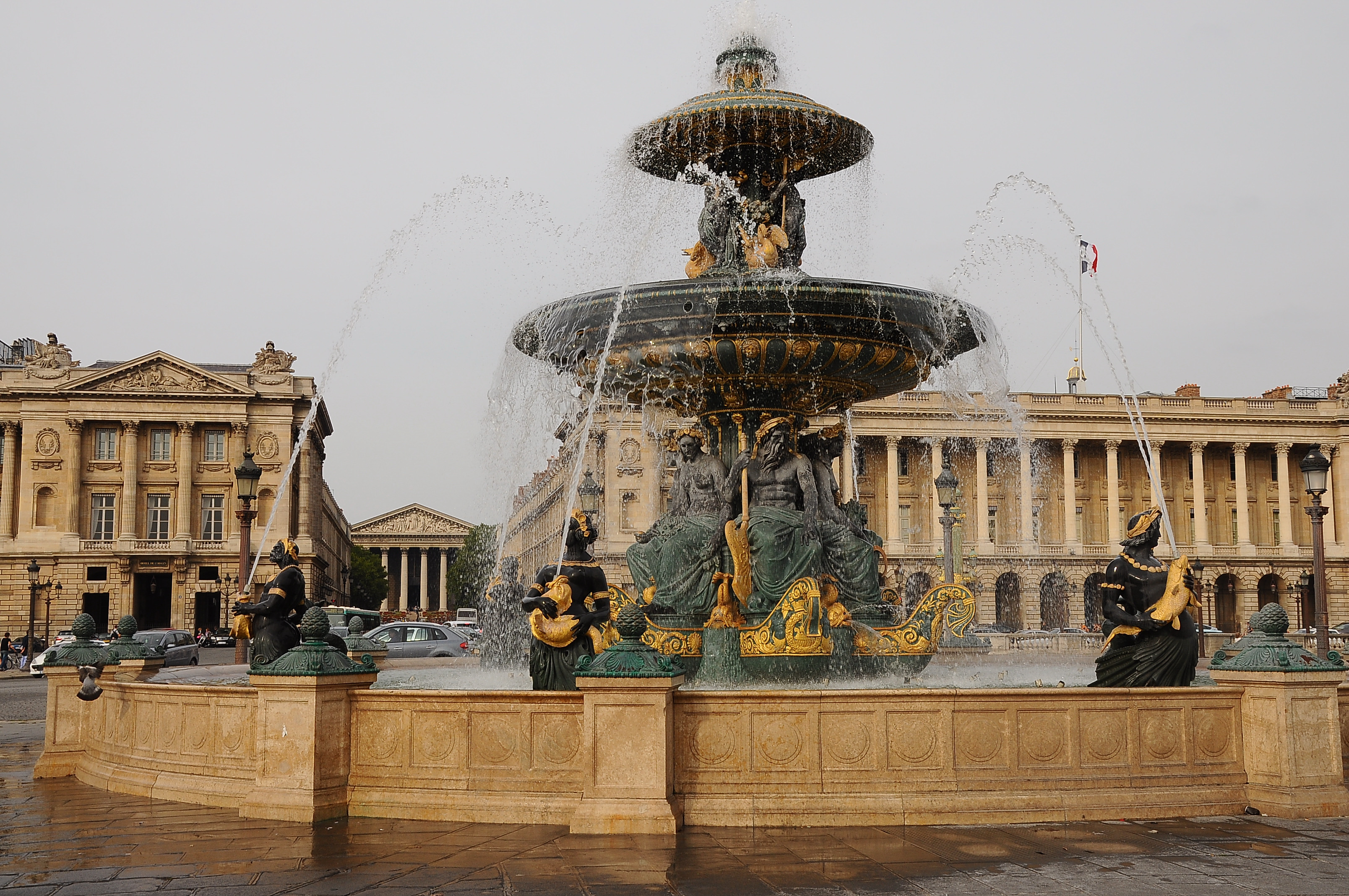 Fontaines de la Concorde (Fontaine des Fleuves) located at place de la Concorde in Paris 8th arrondissement, France. Work of Jacques Hittorff at 1840.